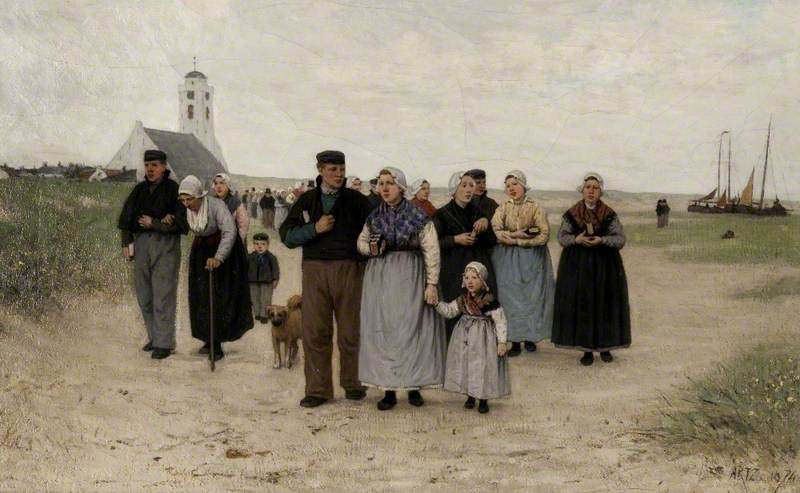 Coming from Church